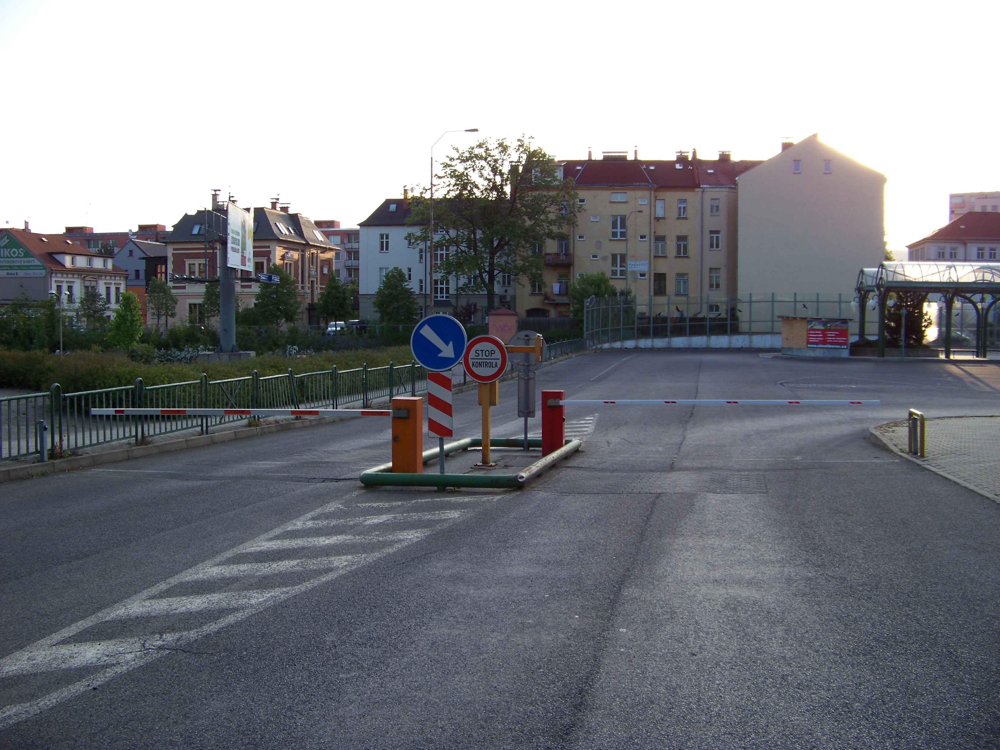 Liberec-Jeřáb, Liberec District, Liberec Region, the Czech Republic. A bus station.